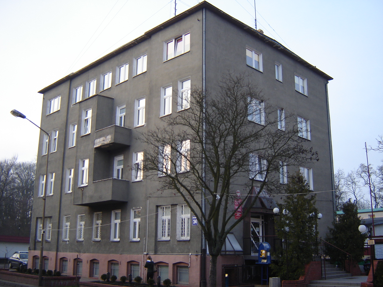 Town Council seat in Choszczno